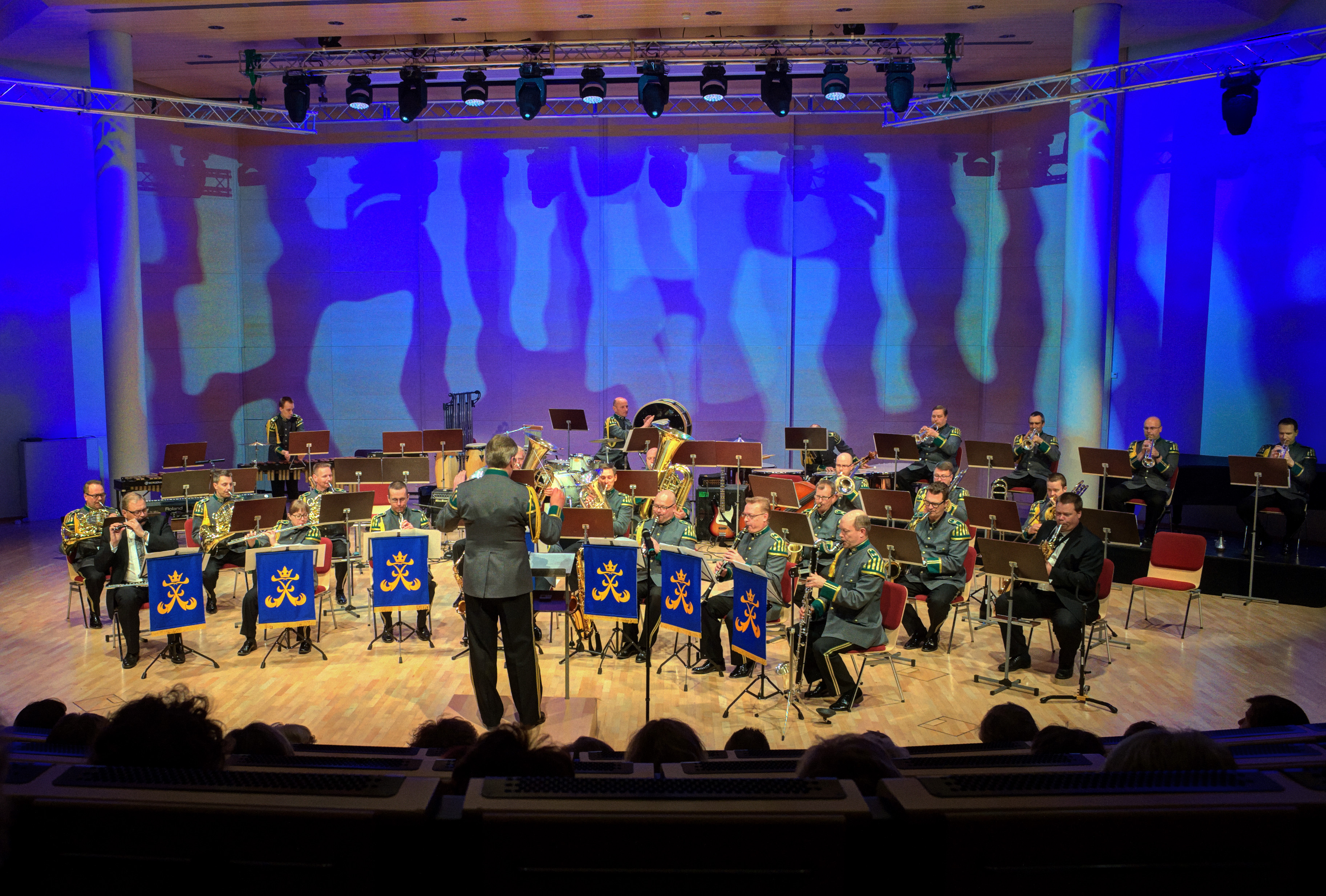 The Dragoon Band (Rakuunasoittokunta) in Lappeenranta, Finland.